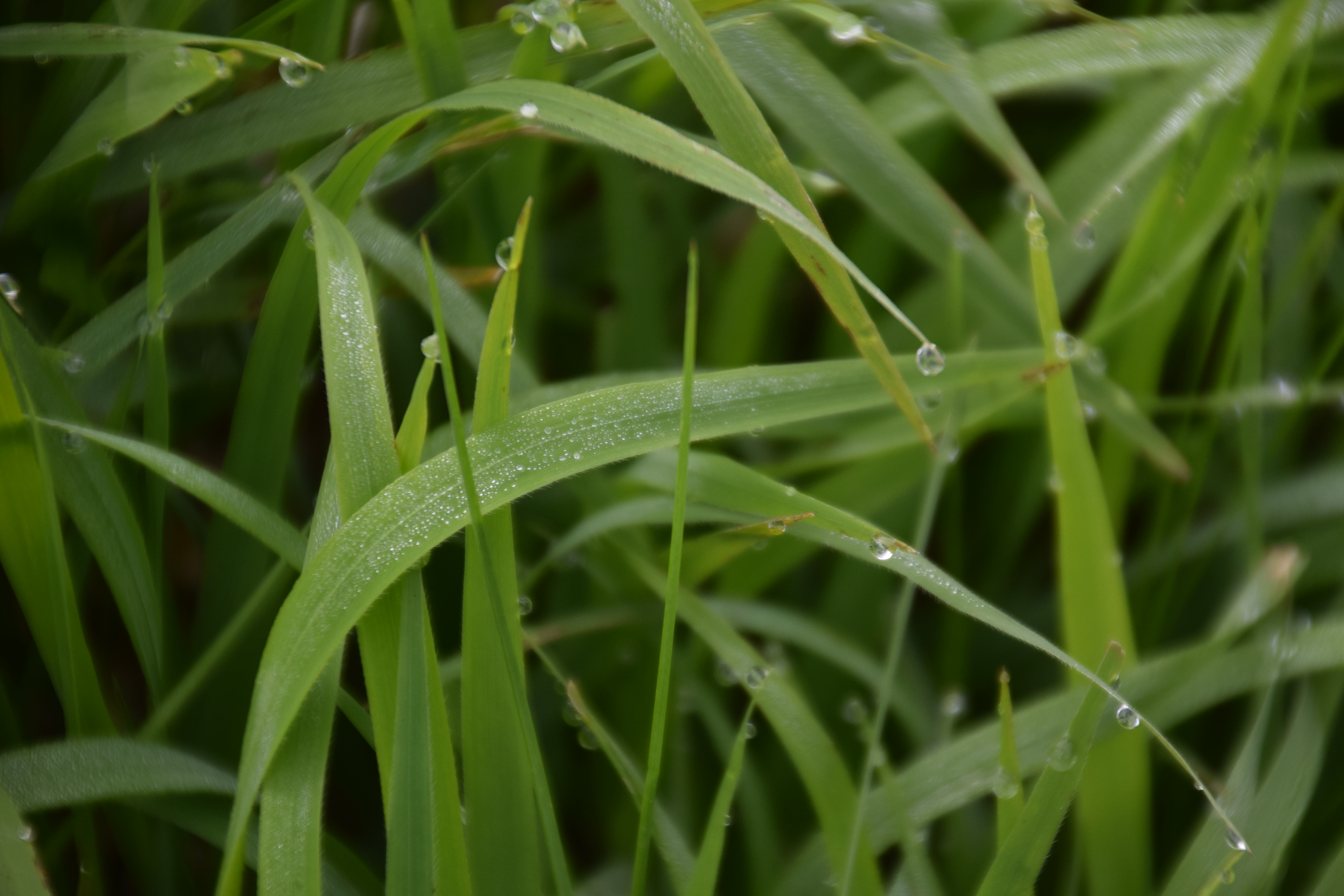 Brachypodium pinnatum in Botanical Garden of Besançon